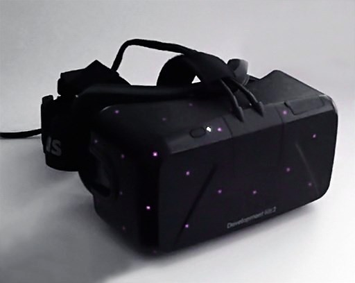 Oculus Rift DK2 with infrared LEDs for positional tracking.